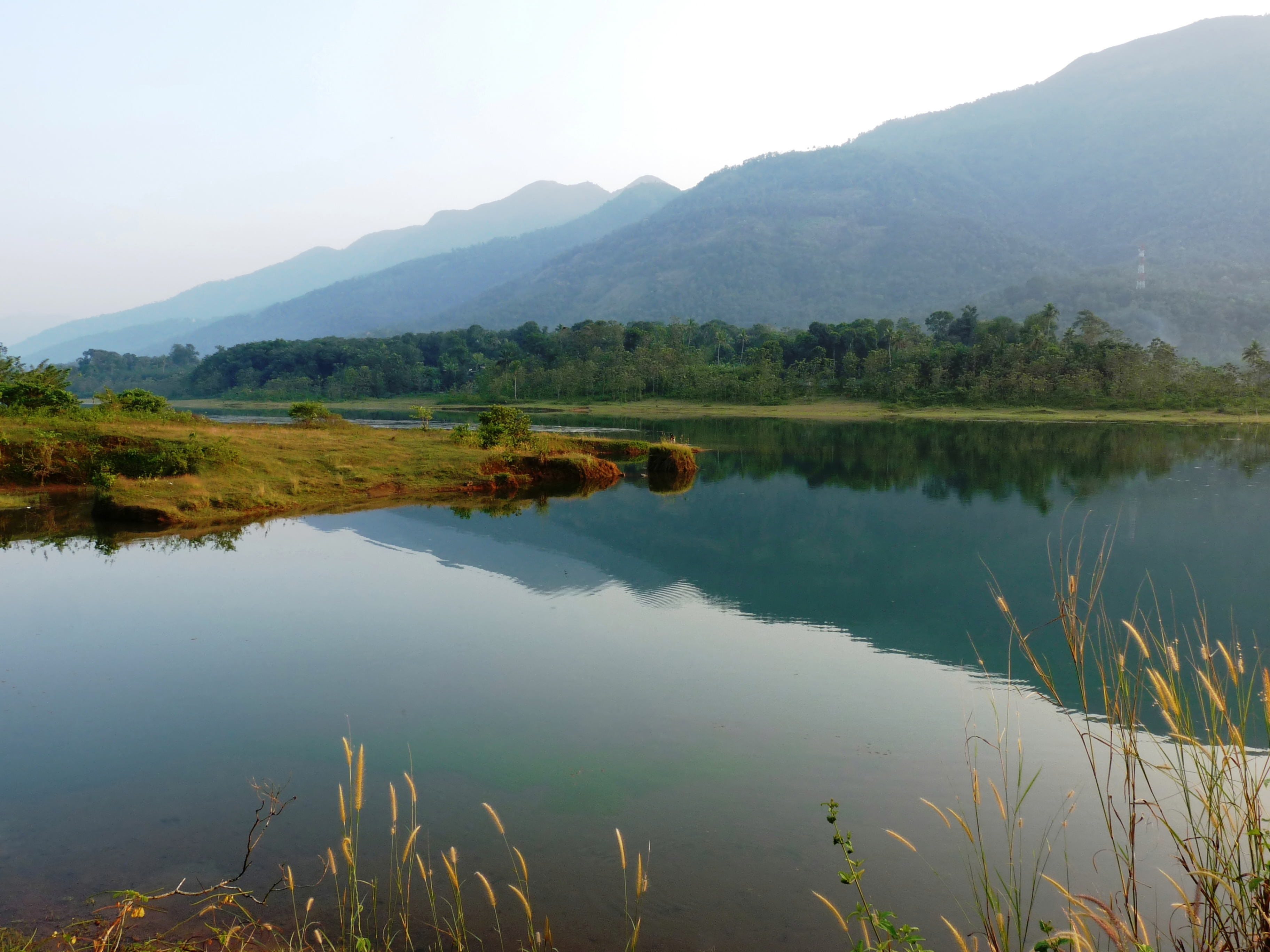 View of Malankara Dam reservoir from Kudayathoor, Thodupuzha.